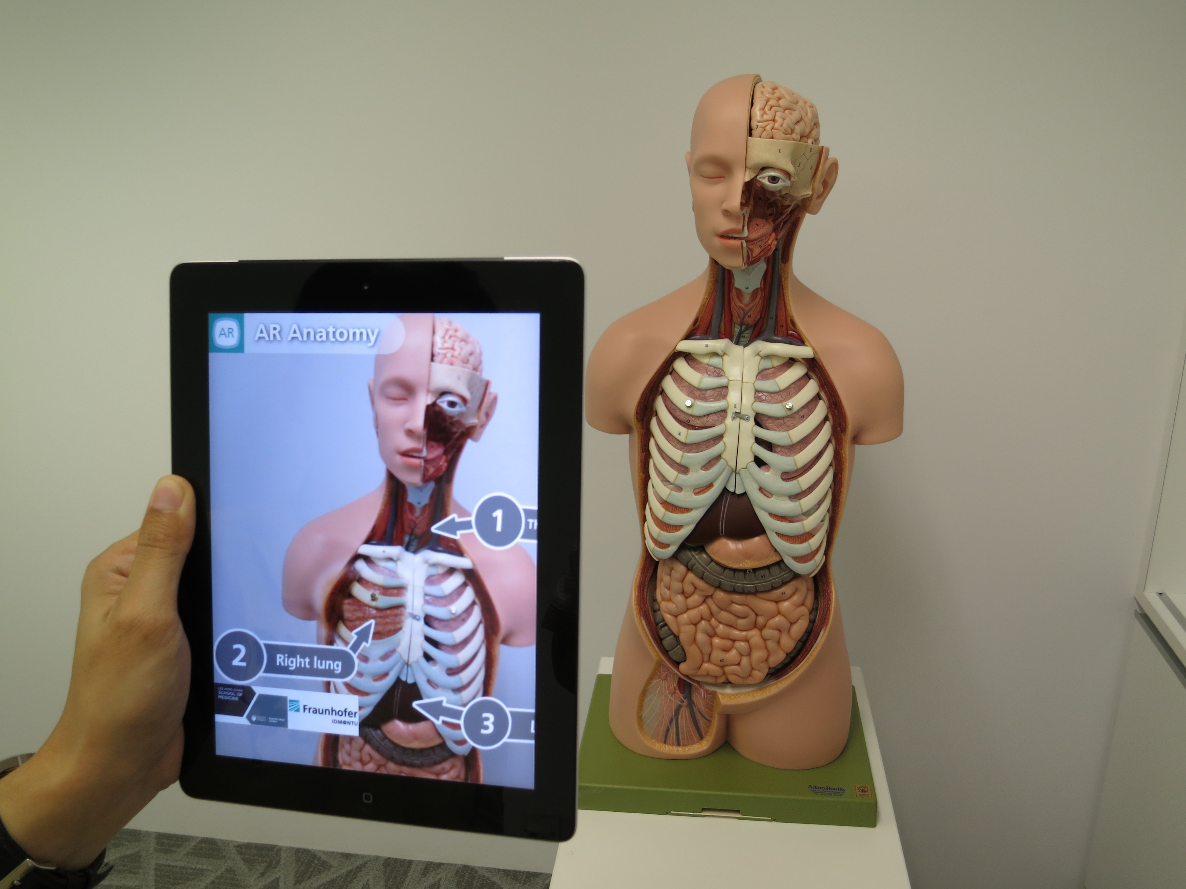 Augmented-reality-1957411 1920